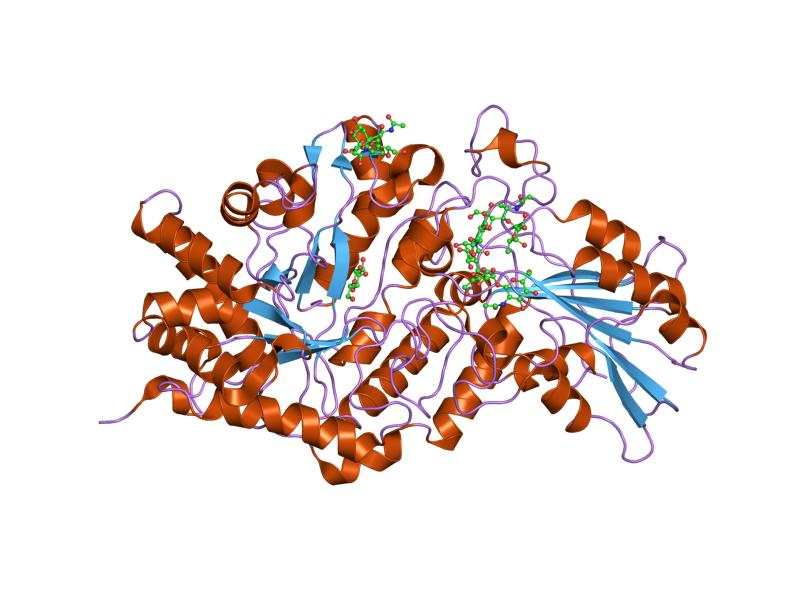 Cartoon representation of the molecular structure of protein registered with 1ieq code.